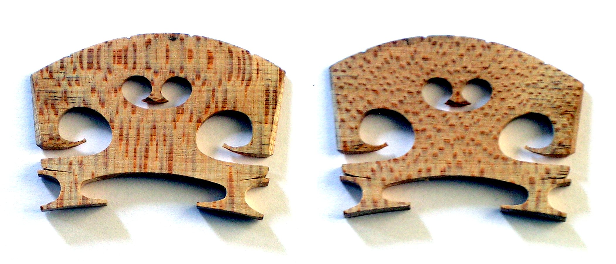 Violin bridge, front and back views. Diffuse daylight, color levels adjusted after exposure.